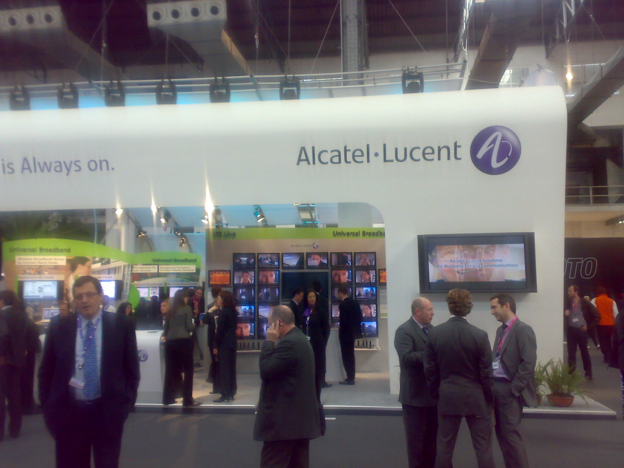 Alcatel-Lucent stand at GSMA Barcelona 2008.